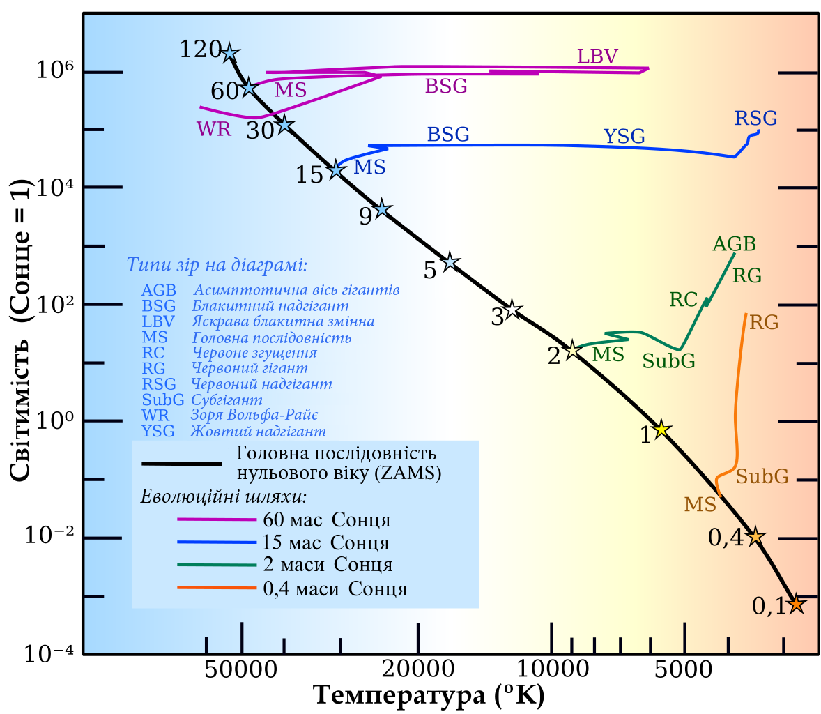 Sample stellar evolutionary tracks for single stars, zero initial rotational velocity, and solar metallicity *AGS Asymptotic Giant Branch *RG Red Giant *SubG Subgiant *MS Main Sequence *RC Red Clump *BSG Blue Supergiant *YSG Yellow Supergiant *RSG Red Supergiant *WR Wolf-Rayet stars *LBV Luminous blue variables